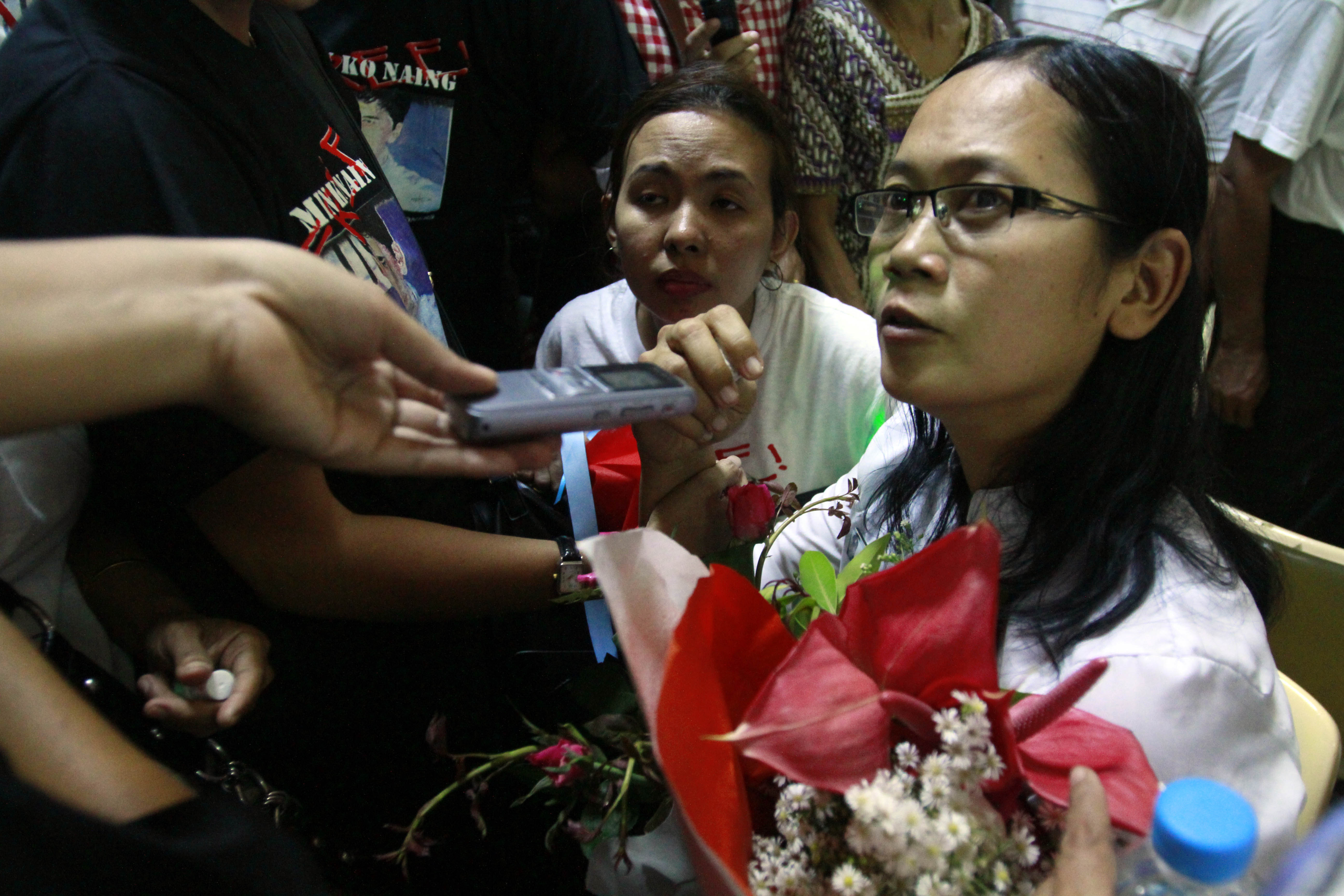 Myanmar democracy activist Nilar Thein talks to the media as she wait her husband, Jimmy (not in the picture) to arrive to the yangon domestic airport as he is released by the government amnesty in Yangon, Myanmar on 13 January 2012.